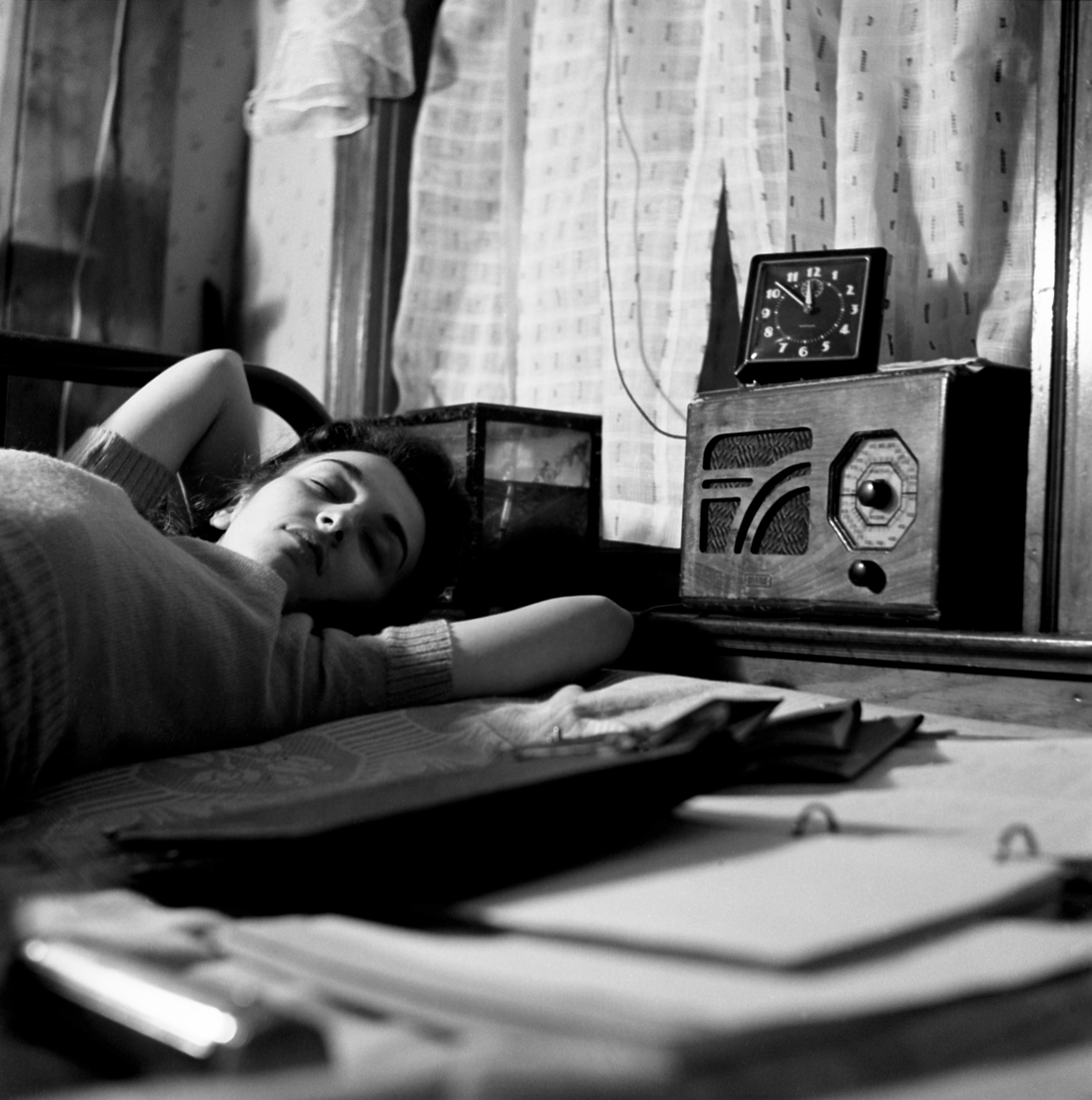 Photo of a female lying on a bed, listening to the radio. Caption: "Washington, D.C. A radio is company for this girl in her boardinghouse room."